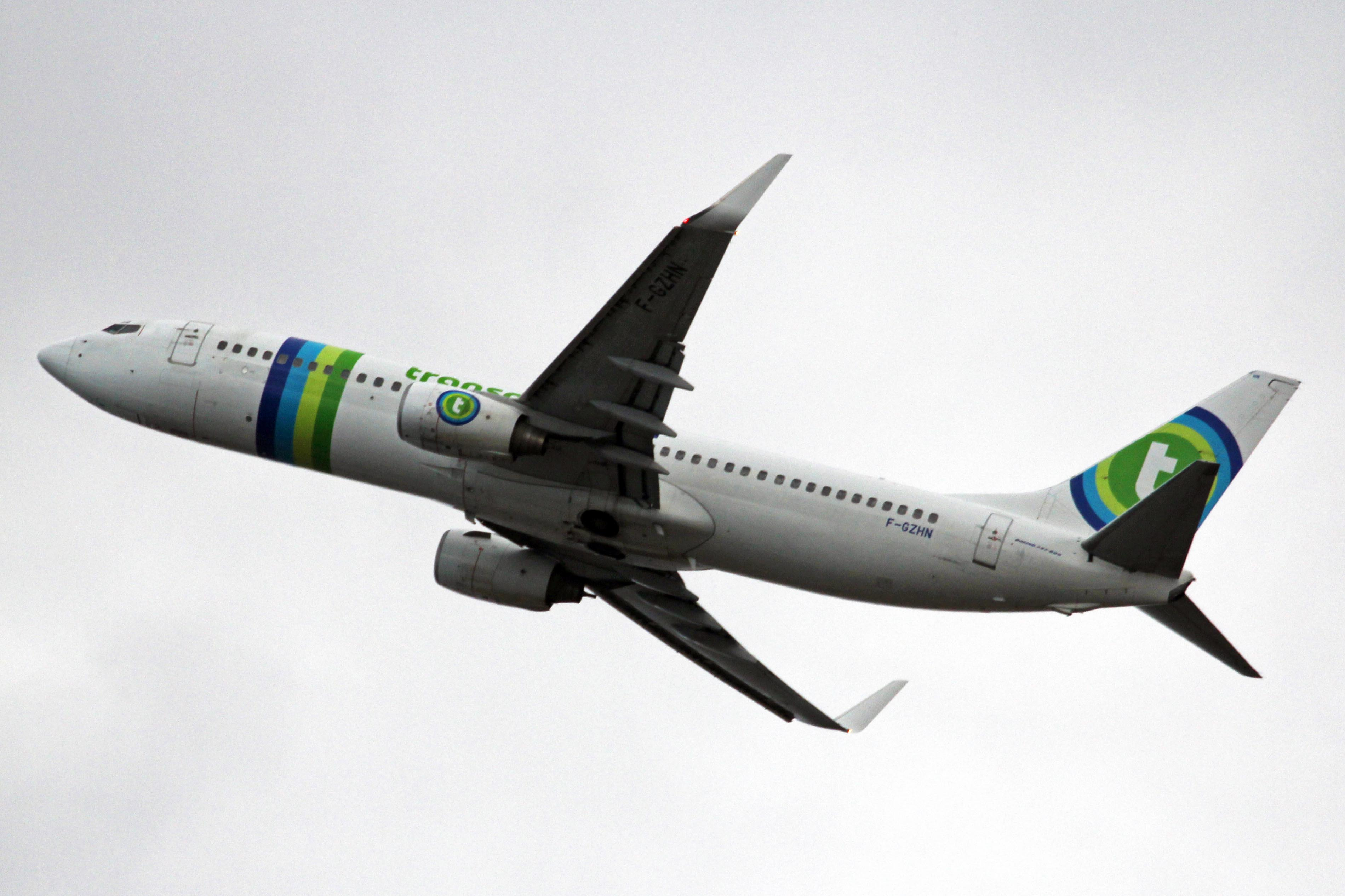 Transavia France.